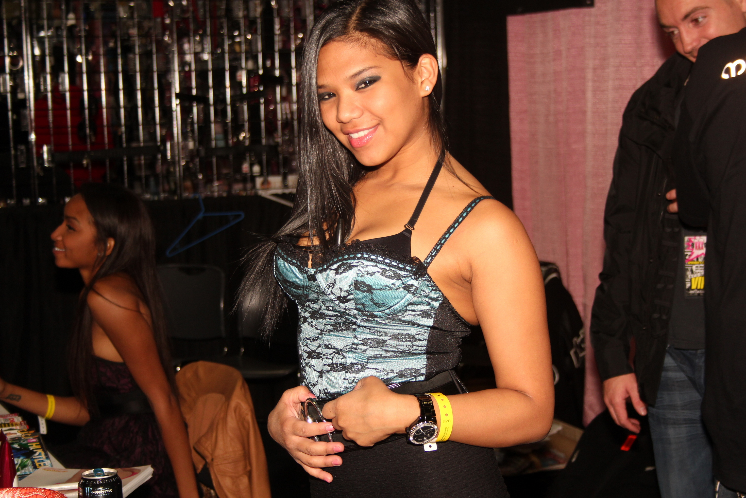 Edison, New Jersey